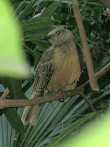 Description: Fawn-breasted Bowerbird - Source: own work - Location: Central Park Zoo, New York - Author: self, User:Stavenn